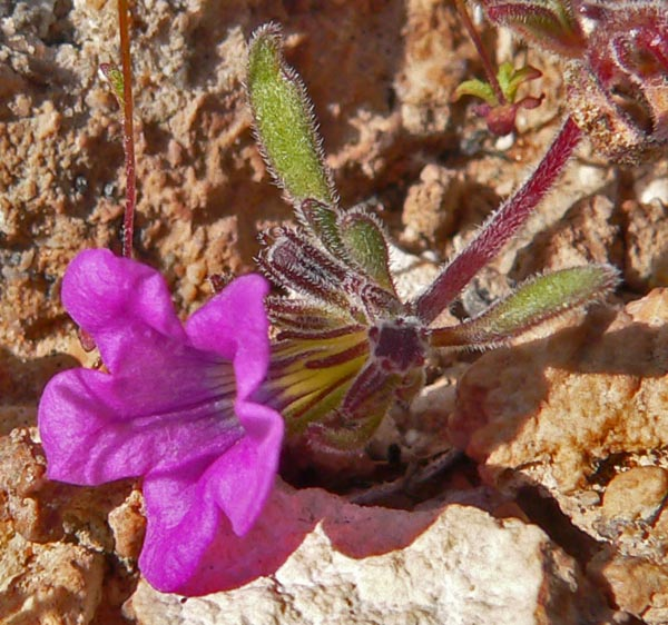 Photo of Nama demissum (purple mat) in Red Rock Canyon, Nevada